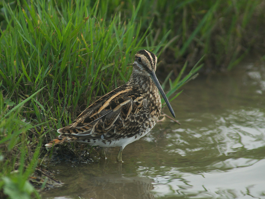 winter visitor in Taiwan.